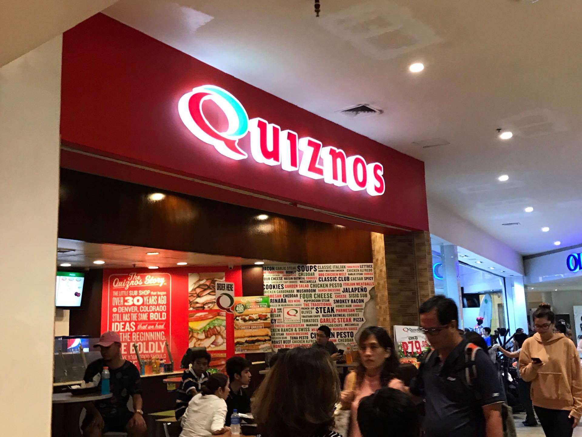 Quiznos branch at ATC.